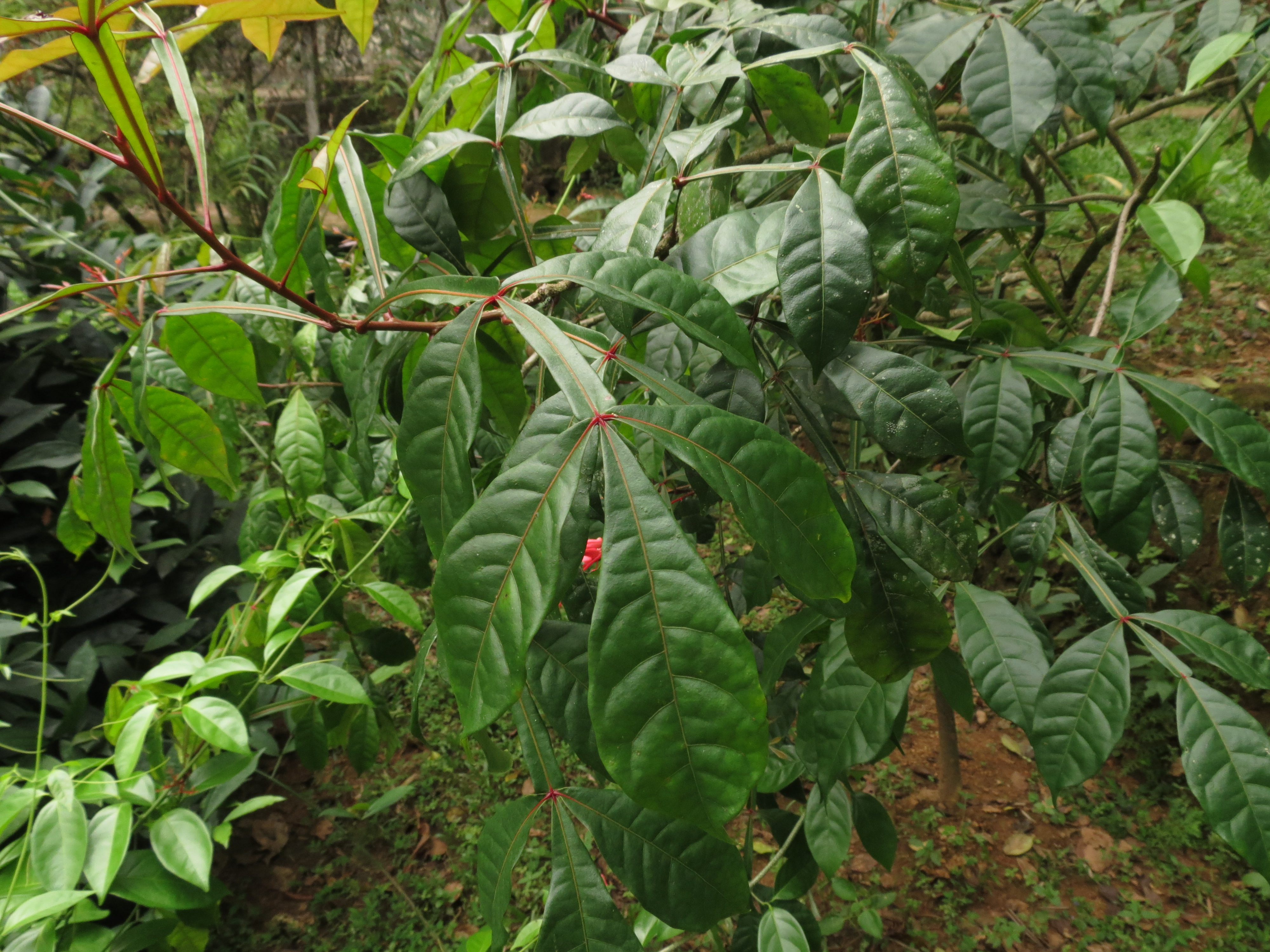 Quassia amara seen in Thattekad Kerala India